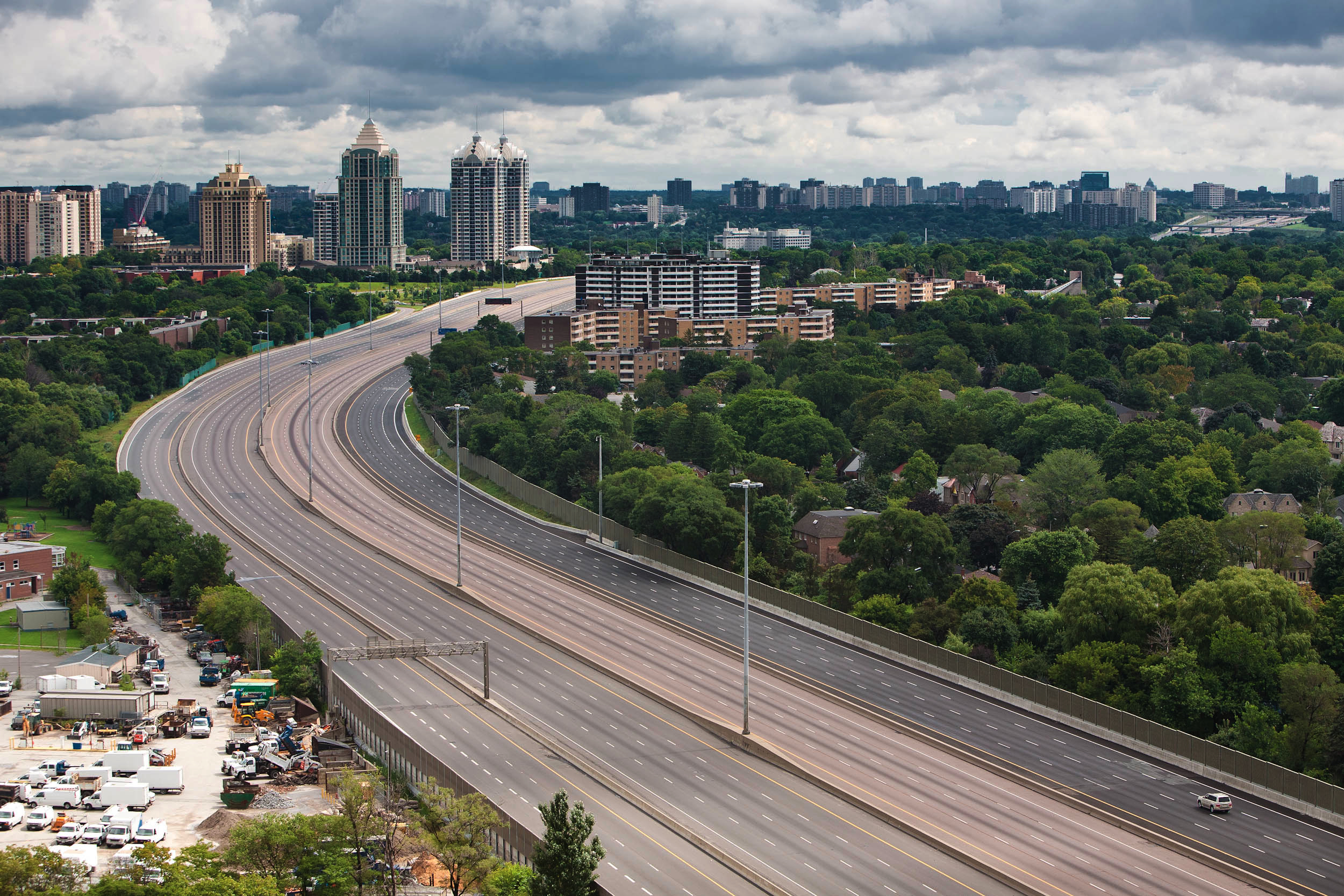 Ontario Highway 401, the busiest highway in North America, was closed during the w:2008 Toronto Propane Explosion. In this rare photograph, only one vehicle is seen driving on its typically crowded collector / express system.